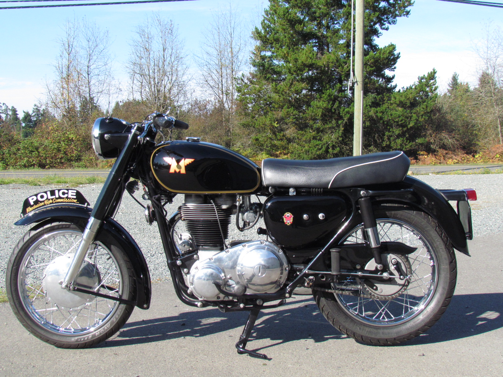 1965 Matchless 500 cc G80CS R Police special. One of Twenty built to special order for the Rhodesian High Commission for their Police Force. This bike was one of the last bikes produced by AJS/ Matchless in England. The order called for an easy starting bike, versatile for road and outback riding. Based on the G80CS frame and Matchless engine it provided a easily handling motorcycle.